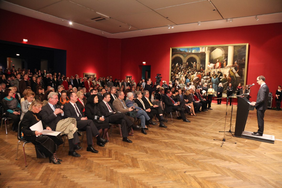 Opening "Munkácsy. Magic & Mystery" Künstlerhaus Vienna / Bécs 30.3.2012 Photo Copyright Katharina Schiffl